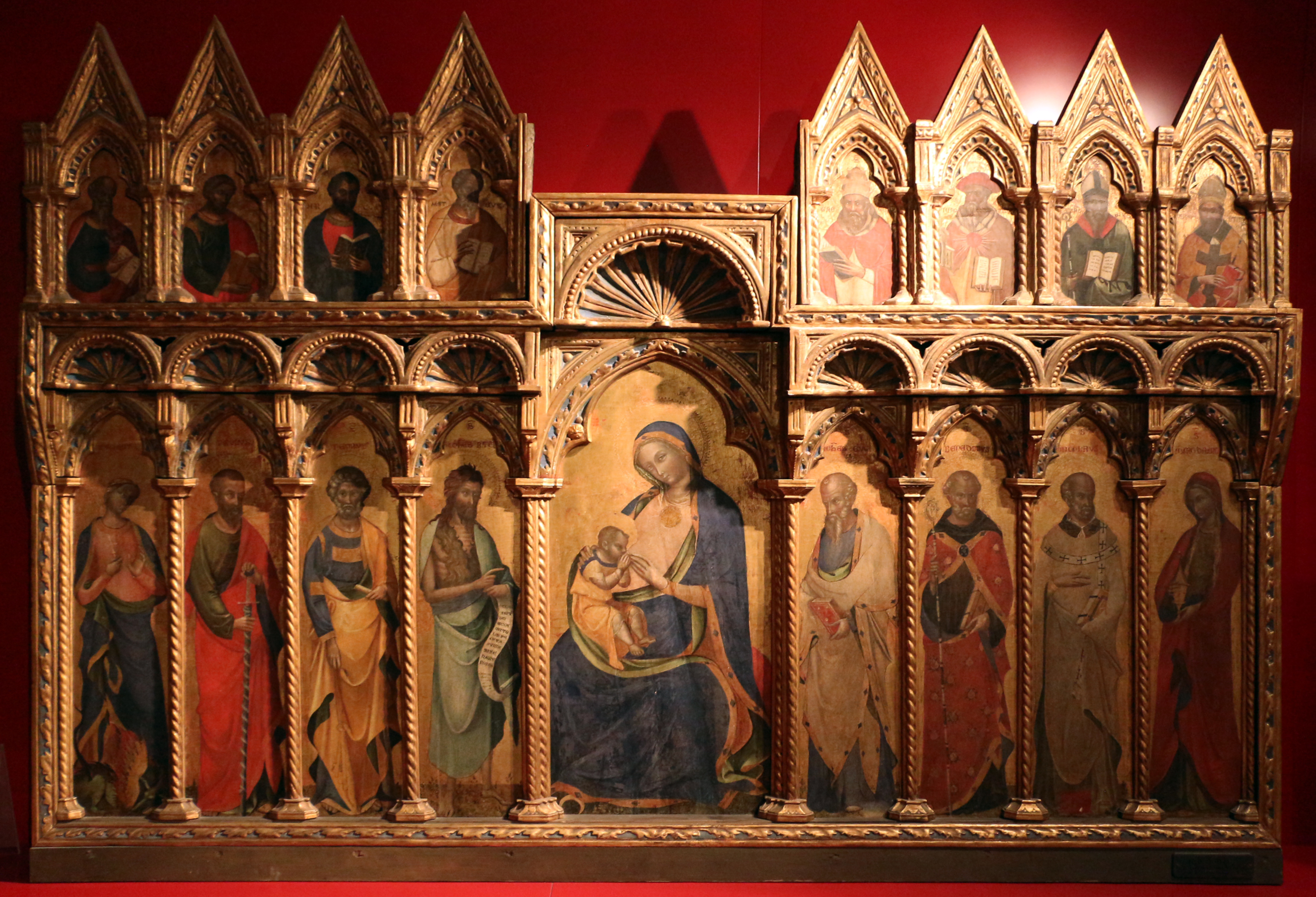 Collections of the Museo provinciale Sigismondo Castromediano